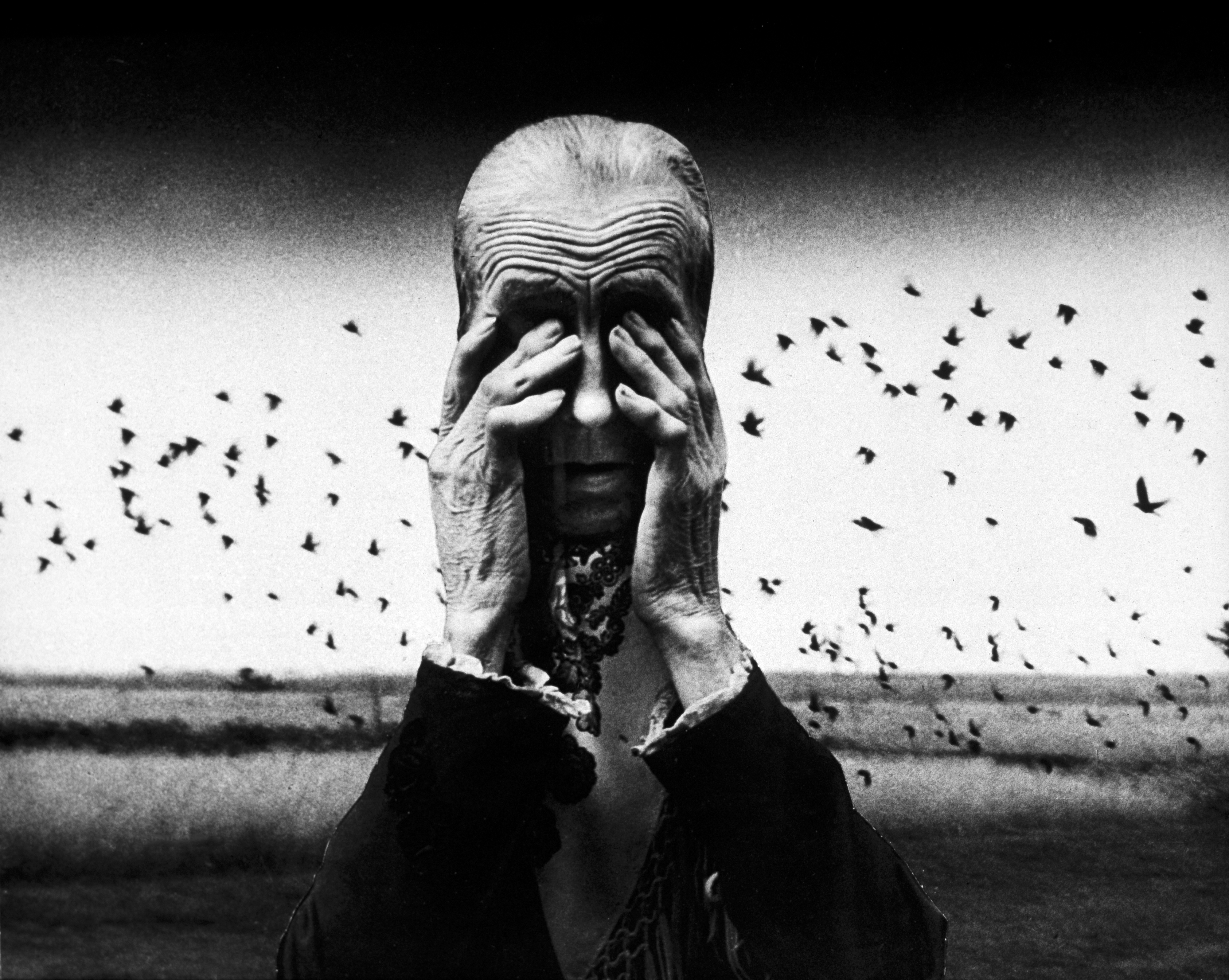 Zofia Rydet, "The Threat" from the cycle "The world of emotions and imagination"